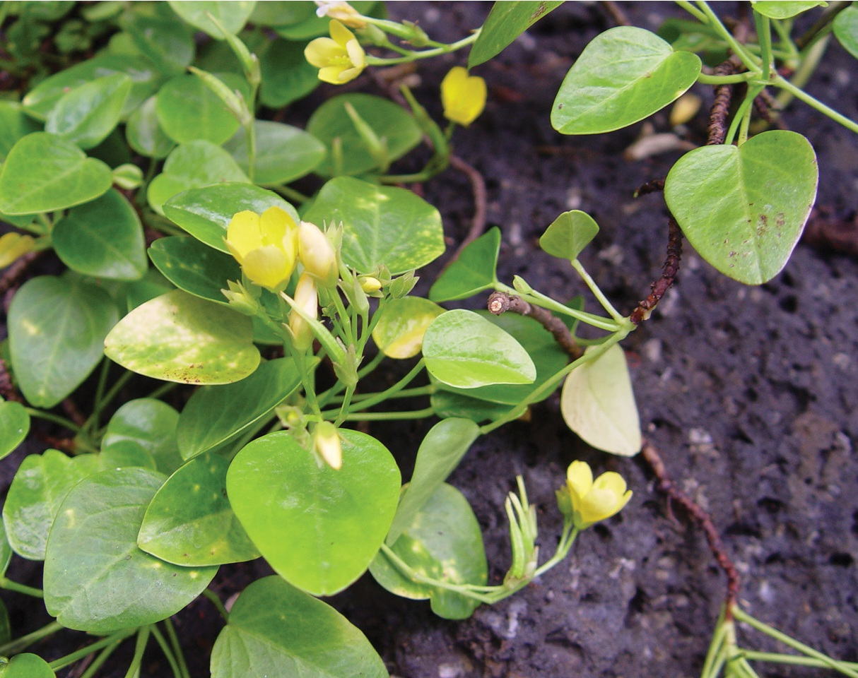 Flower and fruit of Oxalis simplicifolia